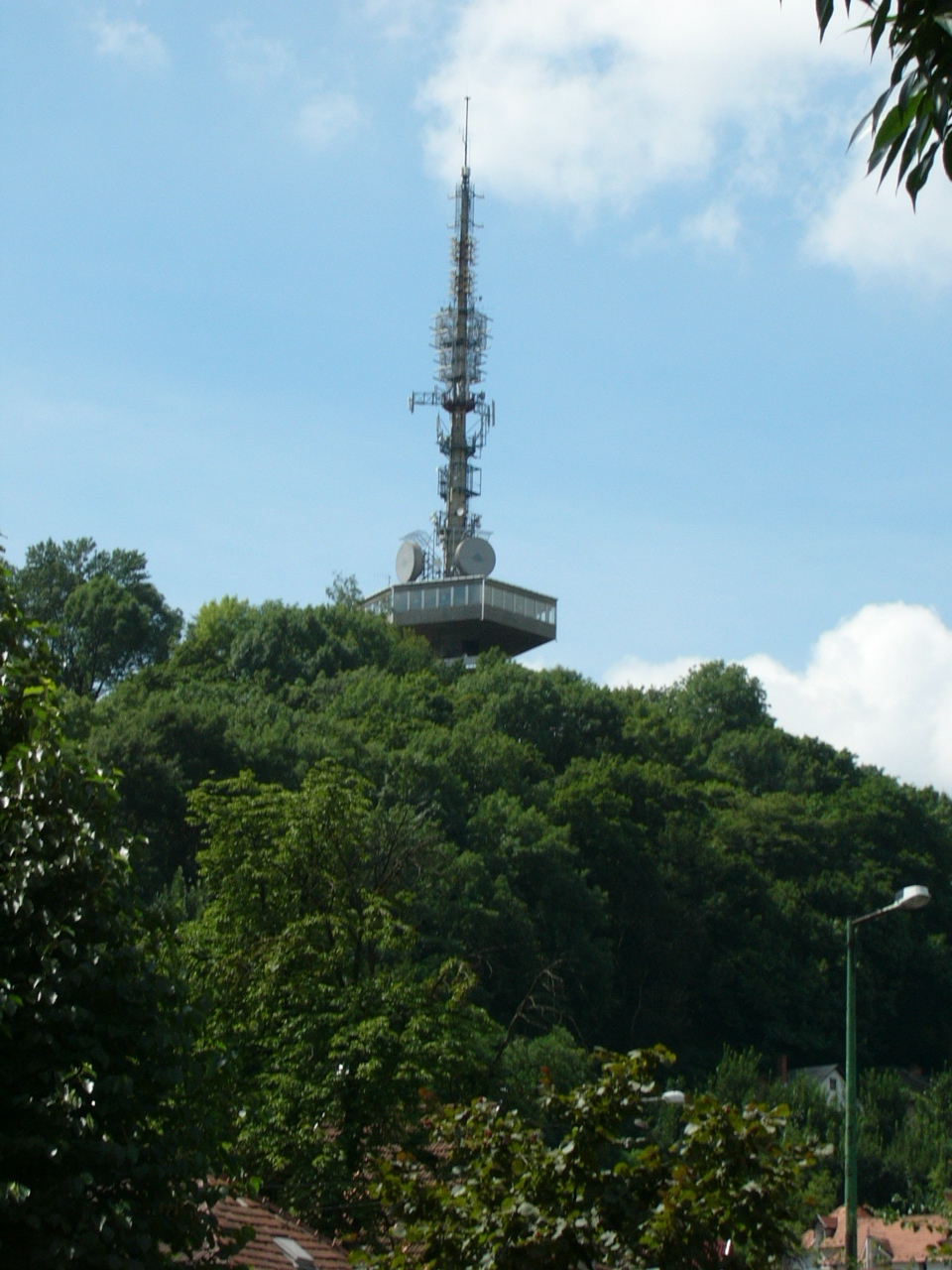 The TV tower on the Avas hill in Miskolc, Hungary; the tower is the symbol of the City.